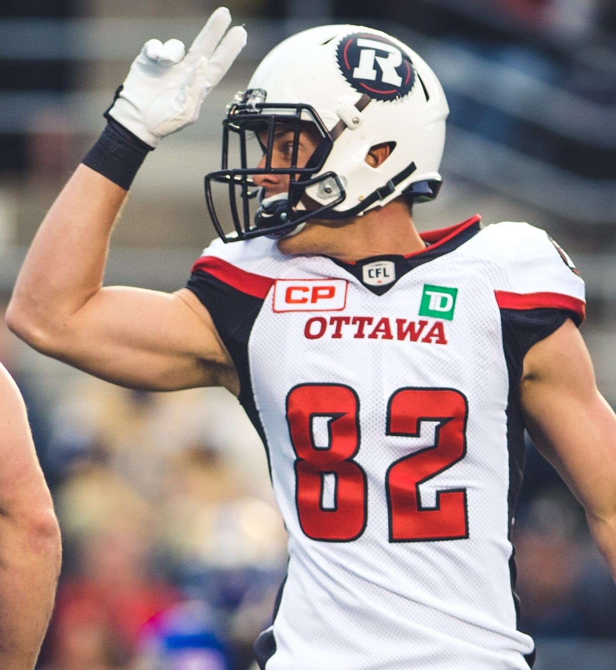 Greg Ellingson (82) of the Ottawa REDBLACKS during the pre-season game against the Winnipeg Blue Bombers at TD Place in Ottawa, ON on Monday June 13, 2016. (Photo: Johany Jutras)